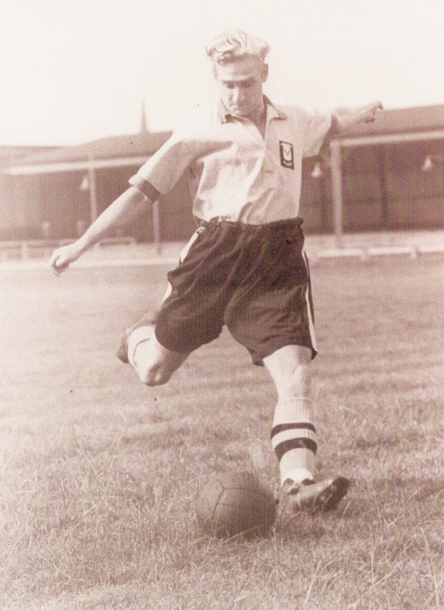 Len Staples